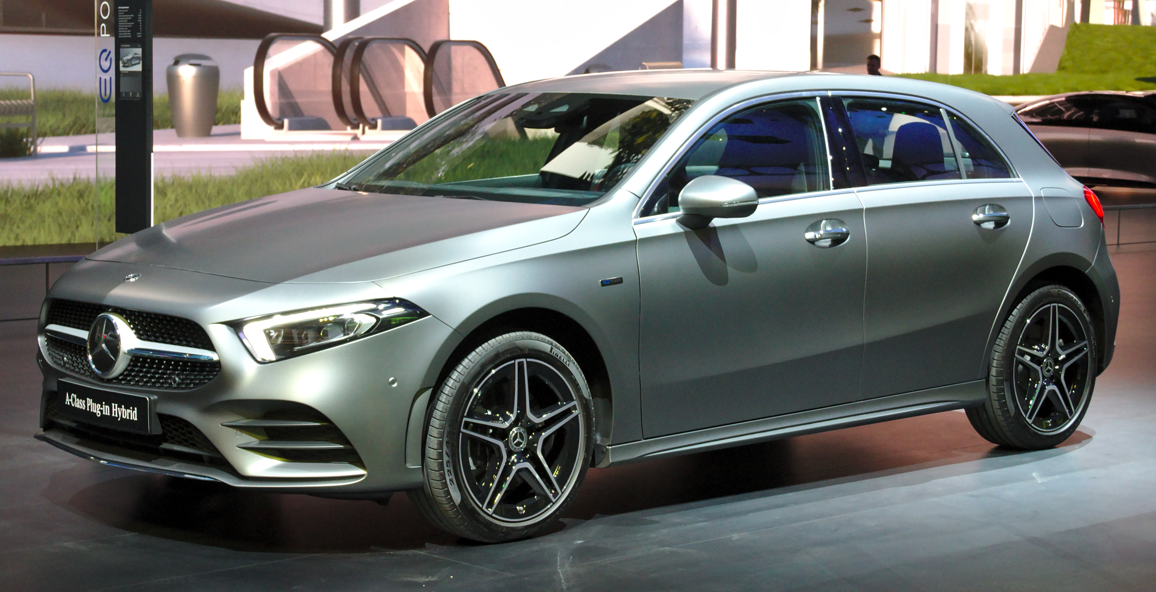 Mercedes-Benz_W177_250_e at IAA 2019